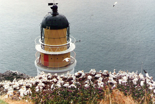 Gannets and Bass Rock's lighthouse, Firth of Forth, Scotland